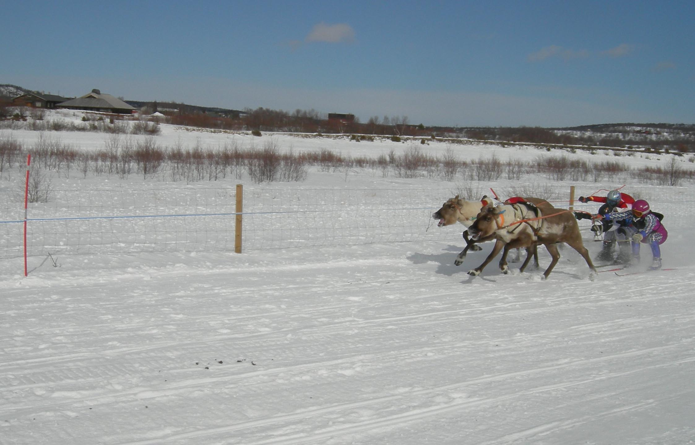 Reindeer racing on river Kautokeinoelva, Kautokeino, Easter 2007